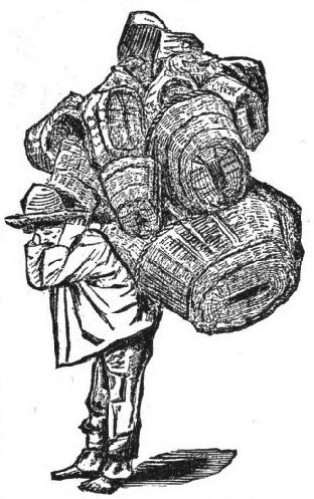 I don't think one would ever tire of the gayly-colored pictures Mexico is ever presenting. Though in Mexico two months, I can find something new every time I glance at the queer people. This little basket vender is but one of thousands, but we find he is the first one to wear his white shirt without tying the two sides together in a knot in front. He must surely have forgotten that part of his toilet, as it is the universal style and custom among them all. Very [Page 74] few Mexicans, even among the better class, wear suspenders. They wrap themselves about the waist with a bright-colored scarf, with fringed ends, and this constitutes suspenders. Many of the better class wear embroidered and ruffled shirt fronts.